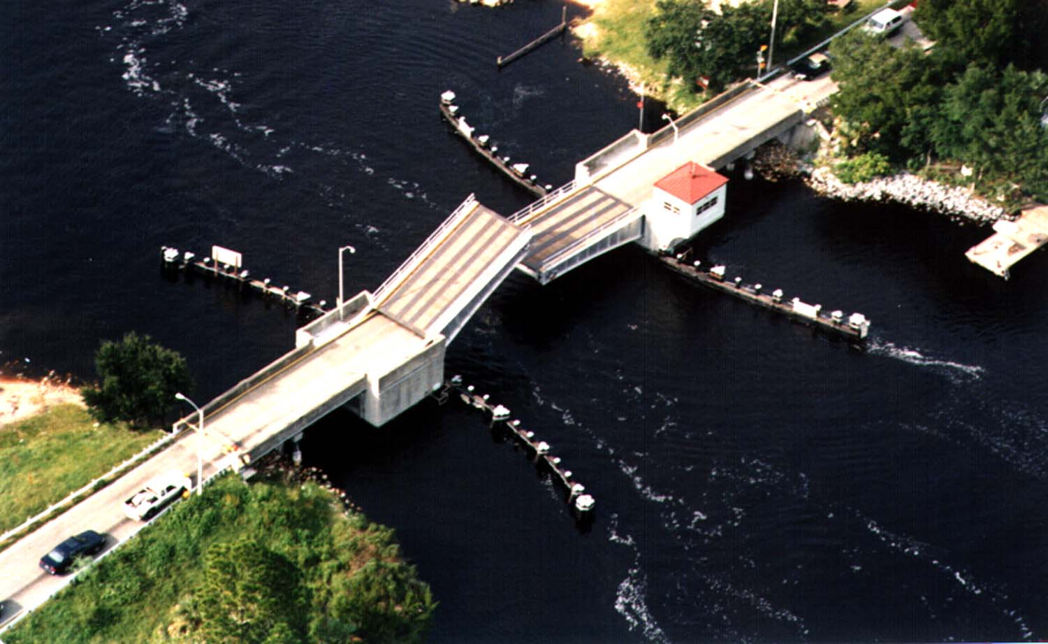 The old Palm Valley Bridge over the Intracoastal Waterway in St. Johns County near Ponte Vedra Beach, Florida, USA. This drawbridge was demolished and replaced by a high, fixed-span bridge in 2002. Coordinates: 30°7′58.3″N 81°23′8.02″W / 30.132861°N 81.3855611°W